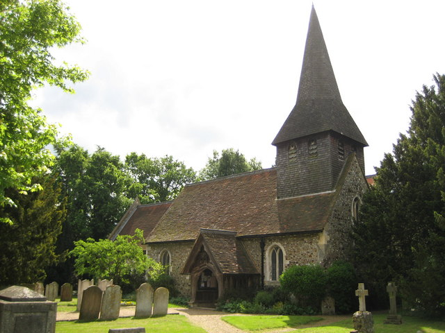 Byfleet: Church of St Mary the Virgin Dating back to the 13th century but much rebuilt, particularly in Victorian times, the church is built of flint and puddingstone rubble and has a wood shingled belfry under its broach spire. The Church's website is here